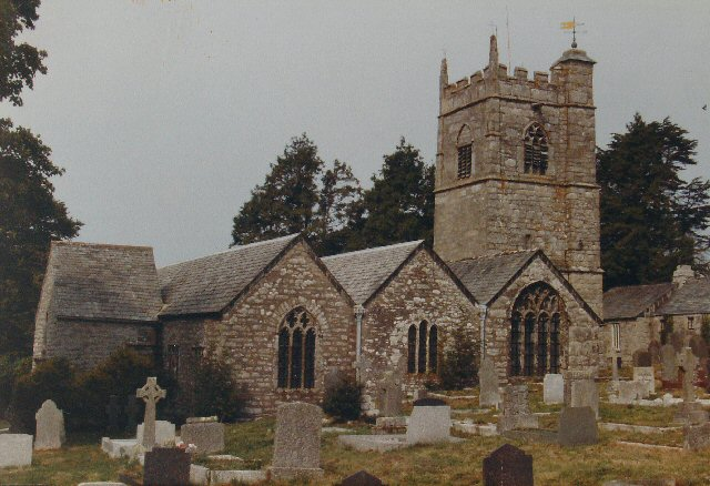 Church of St Protus and St Hyacinth, Blisland, Cornwall. The fine Norman church on the S side of the small Bodmin Moor village of Blisland.